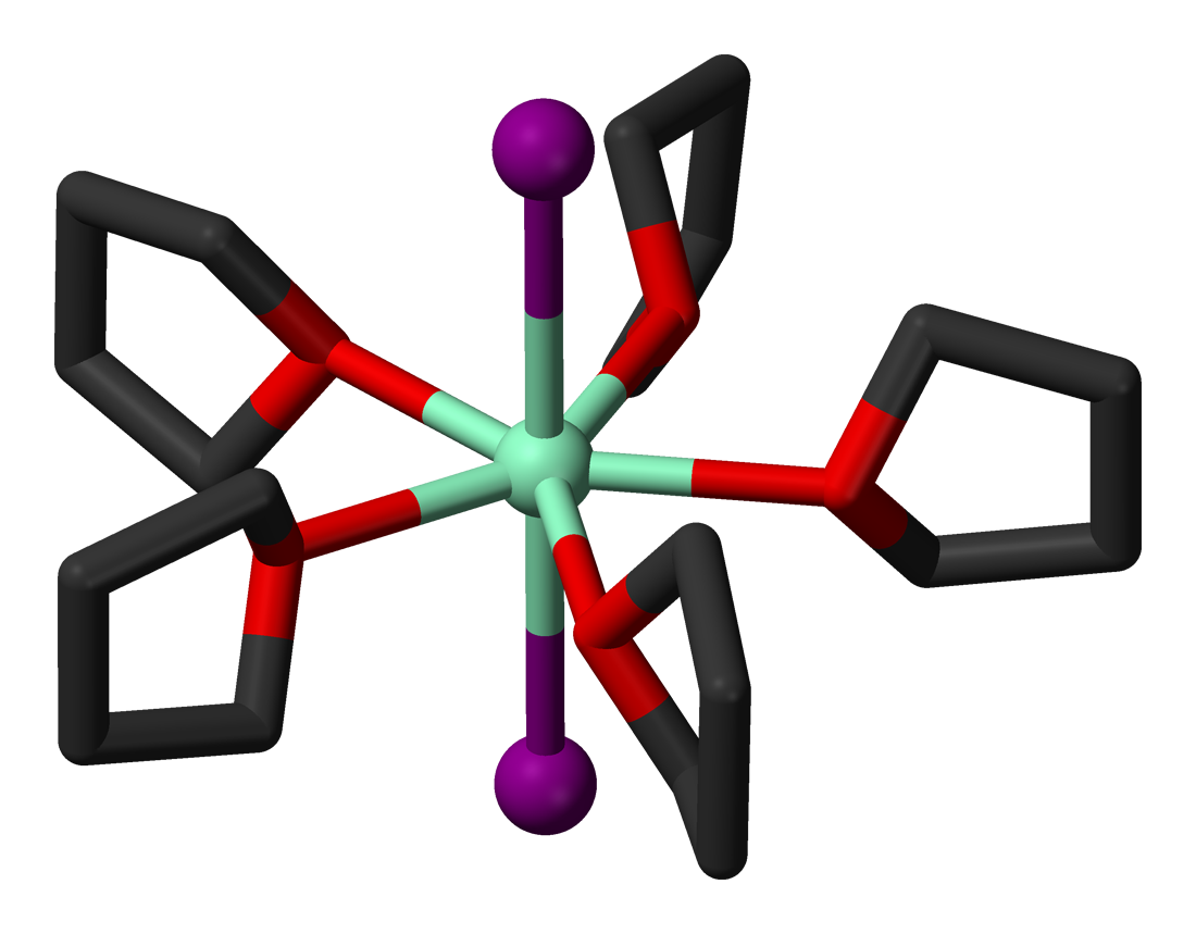 Ball-and-stick model of the diiodopenta(THF)samarium(II) complex, [SmI2(THF)5]. X-ray crystallographic data from J. Am. Chem. Soc. (1995) 117, 8999–9002. Image generated in Accelrys DS Visualizer.